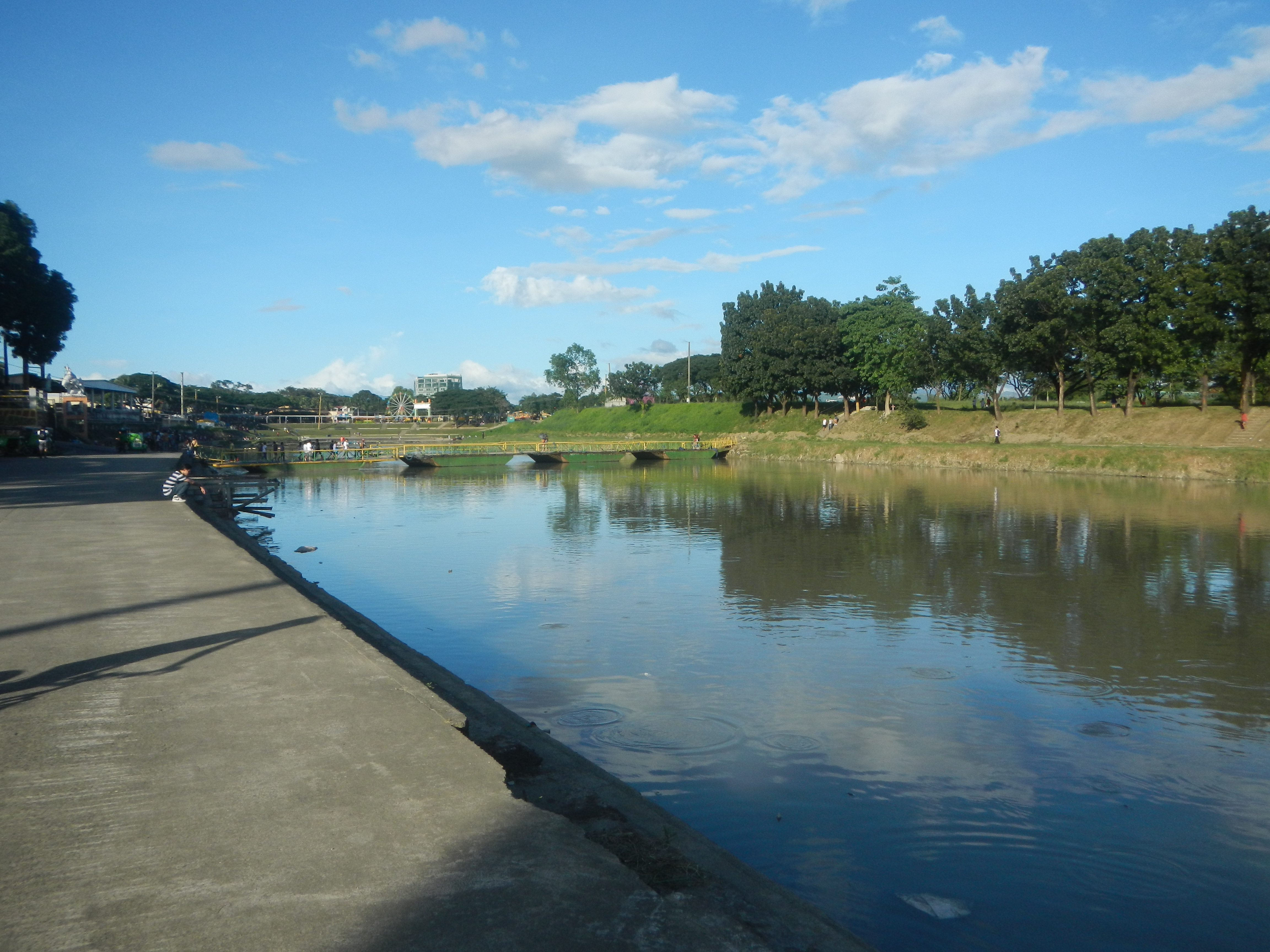 List of landmarks and attractions of Marikina Tayug Footbridge 14°37'25"N 21°5'5"E interconnecting with the SM City Marikina Footbridge 14°37'28"N 121°5'3"E and the Santolan Station Footbridge 14°37'19"N 121°5'11"E MRT-2 Santolan Station and the Marcos Bridge 14°37'32"N 121°4'58"E along Marcos Highway (Marikina City Section) Marcos Highway 14°36'49"N 121°20'8"E (Marikina City Section) Marikina River Marikina River Park under the Marikina River Park Authority, 1993 system of parks, trails, open spaces and recreation facilities along an 11-kilometre (6.8 mi) stretch of the Marikina River, Carabao statues along SM City Marikina SM City Marikina 14°37'35"N 121°5'3"E Riverbanks Center, Radial Road-6, Flyover, Riverbanks Center 14°37'50"N 121°4'56"E Riverbanks Center and Eastern Metro-Manila Multi Modal Transport Terminal; located in Major Dizon Street and FVR Road at Barangays of Marikina Barangays Industrial Valley Complex 14°37'30"N 121°4'41"E , Orlandes IVC Green Garden, Calumpang, Marikina and Barangka (Marikina), Marikina City bounded by Legislative district of Pasig City List of barangays of Metro Manila, Barangays Santolan 14°36'53"N 121°5'7"E Pasig City; Santolan station Manila Line 2 Strong Republic Transit System SRTS Marikina–Infanta Highway Marcos Highway or MARILAQUE Highway or Manila-Rizal-Laguna-Quezon (Note: Judge Florentino Floro, the owner, to repeat, Donor Florentino Floro of all these photos hereby donate gratuitously, freely and unconditionally all these photos to and for Wikimedia Commons, exclusively, for public use of the public domain, and again without any condition whatsoever).